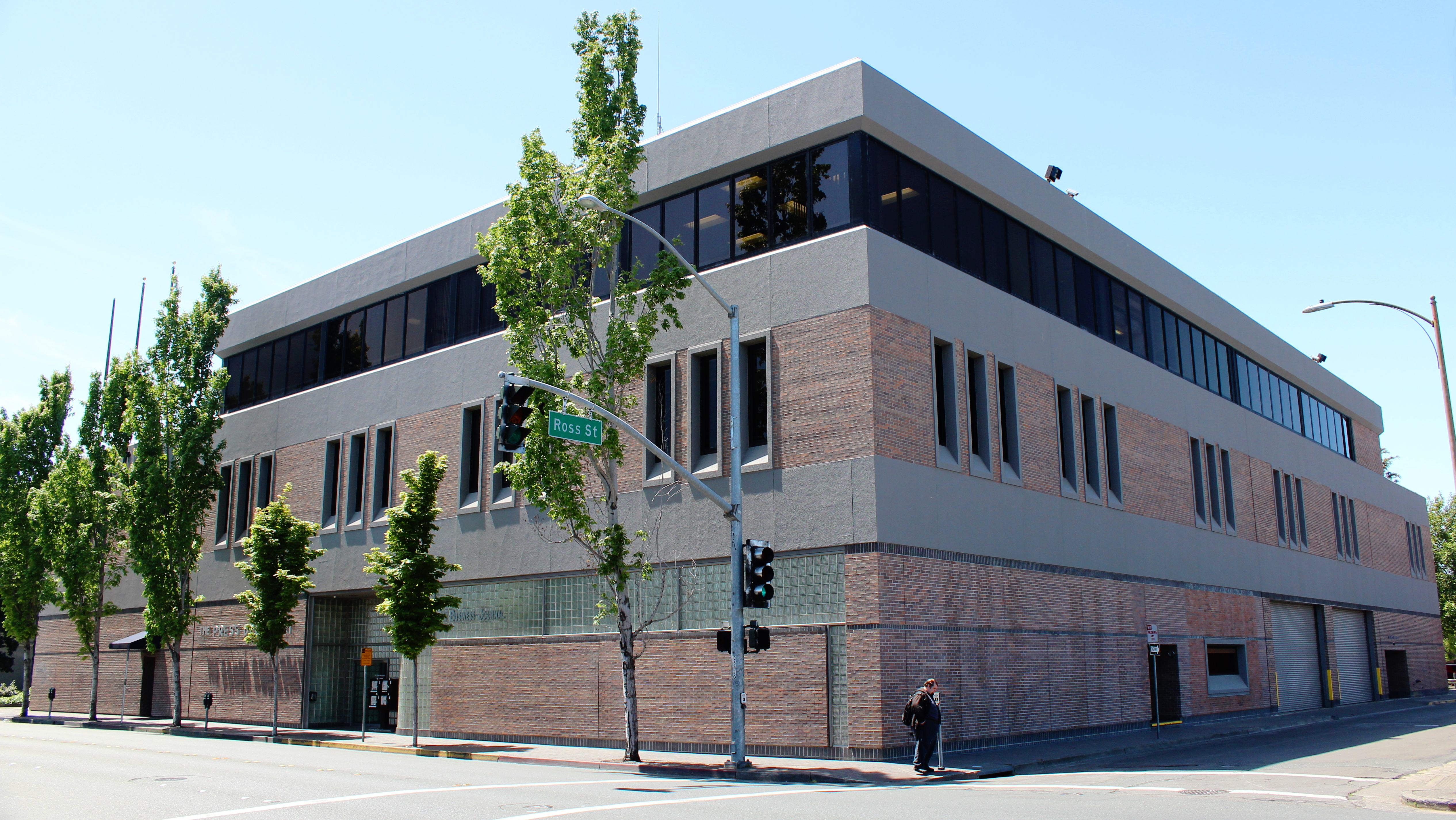 The Press Democrat Headquarters at 427 Mendocino Ave. in Santa Rosa - Northeast Corner